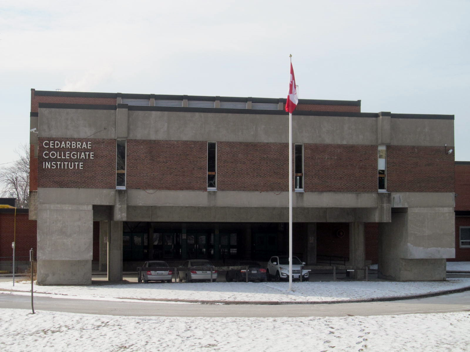 View of Cedarbrae CI from the hill, July 2013.